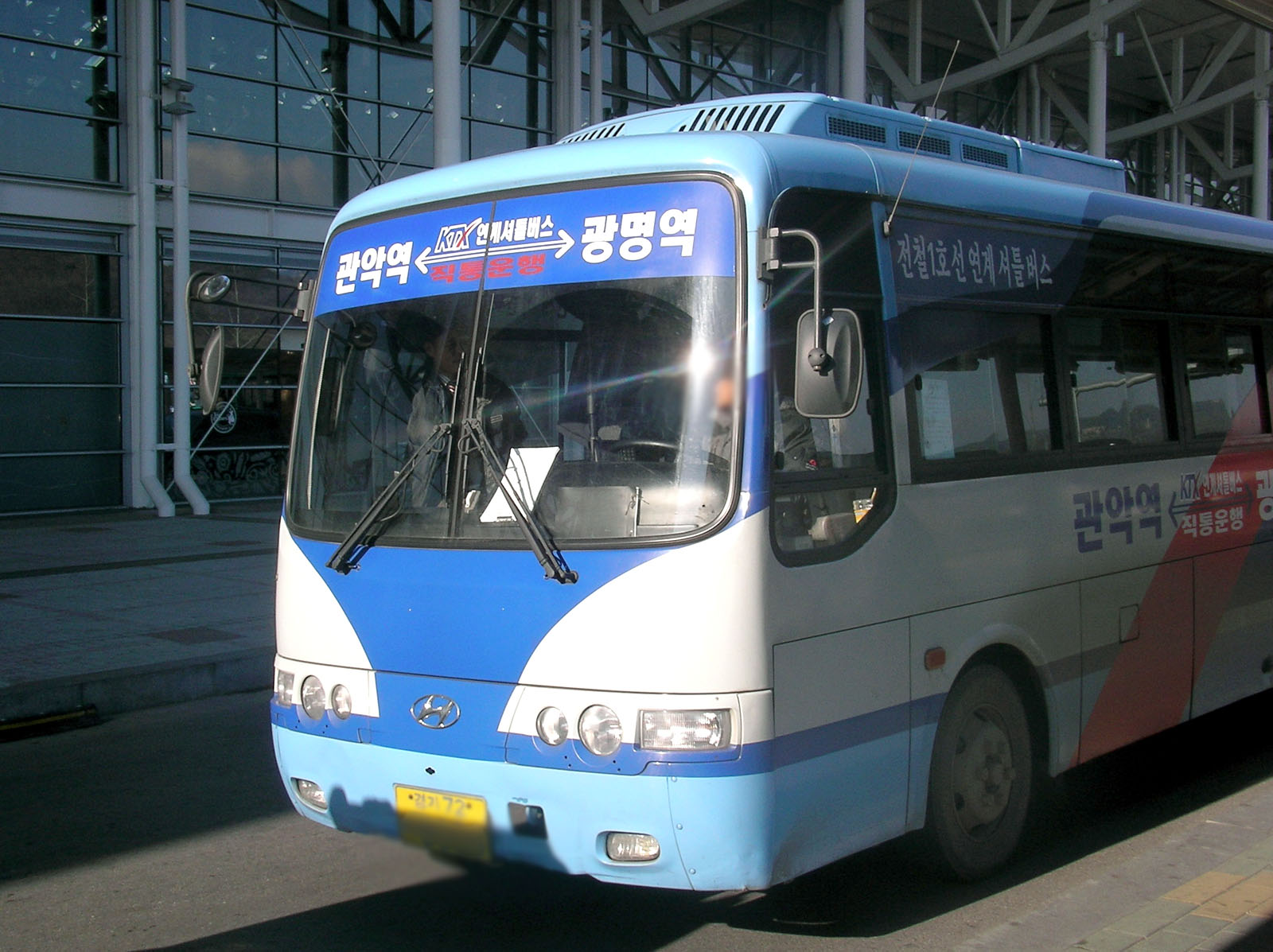 Gwangmyeong Station shuttle bus. Hyundai Aero Town.